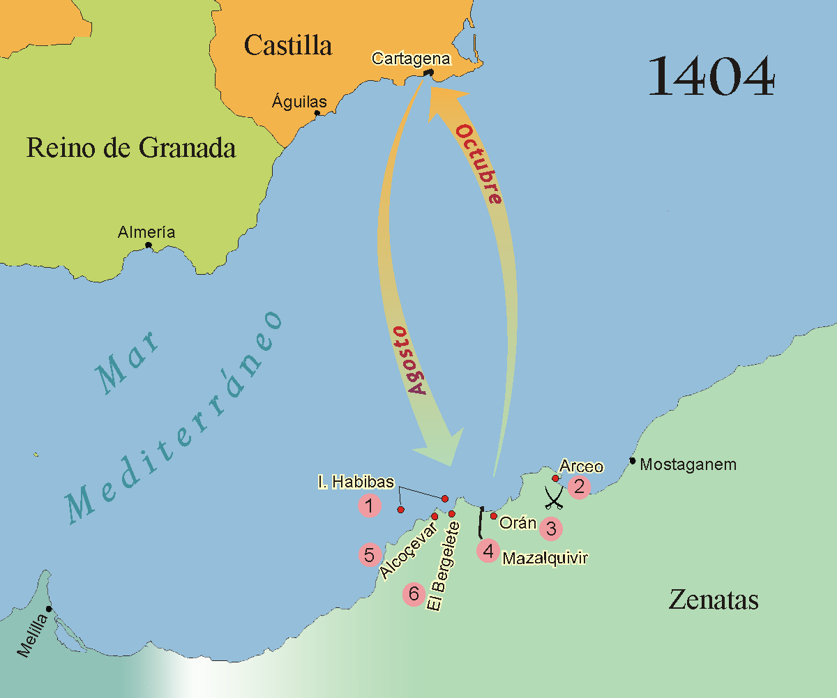 Third Mediterranean expedition (August–October 1404) of Castilian soldier, sailor and privateer Pero Niño (1378–1453).